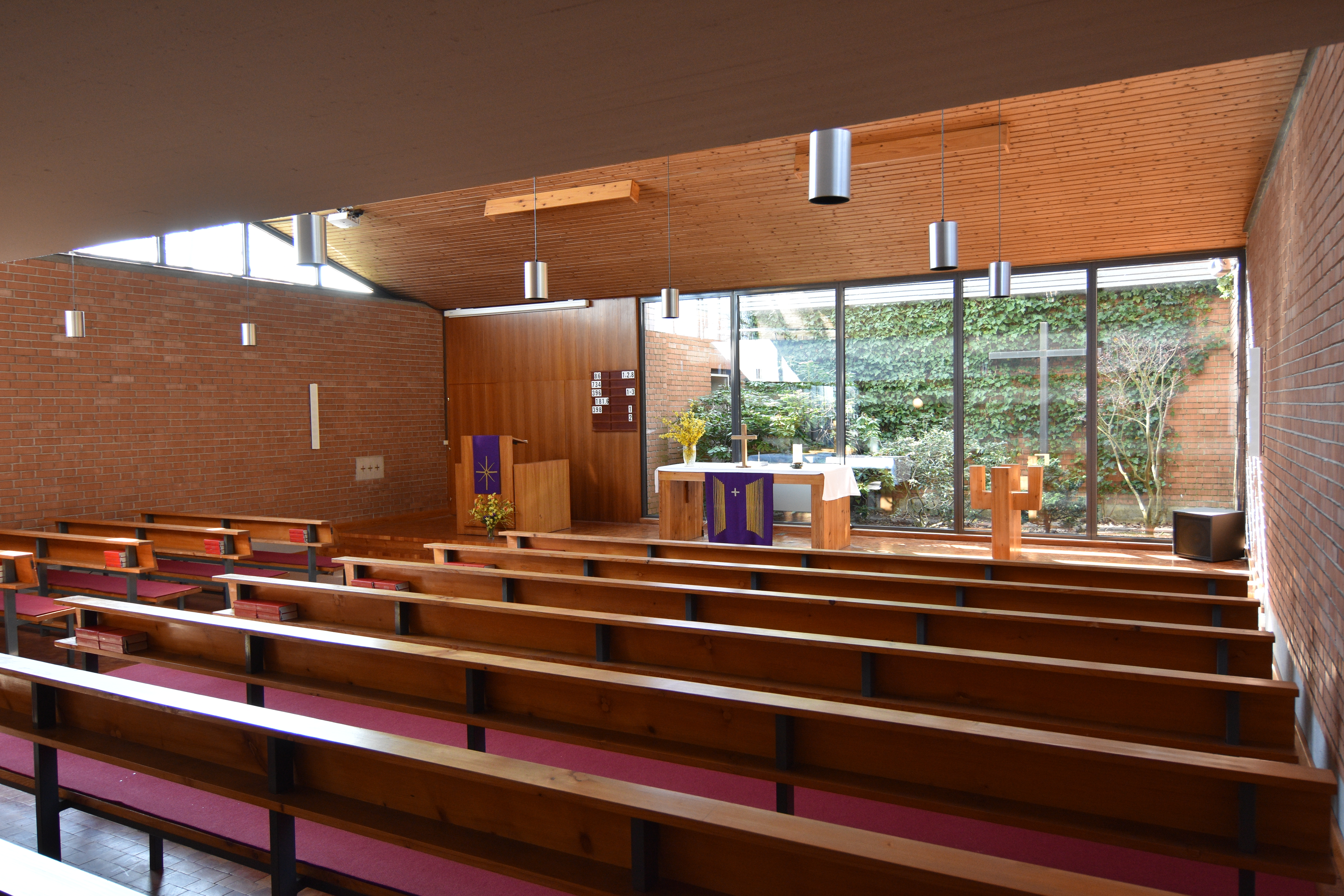 Church Evangelische Friedenskirche, Bad Tatzmannsdorf Interior